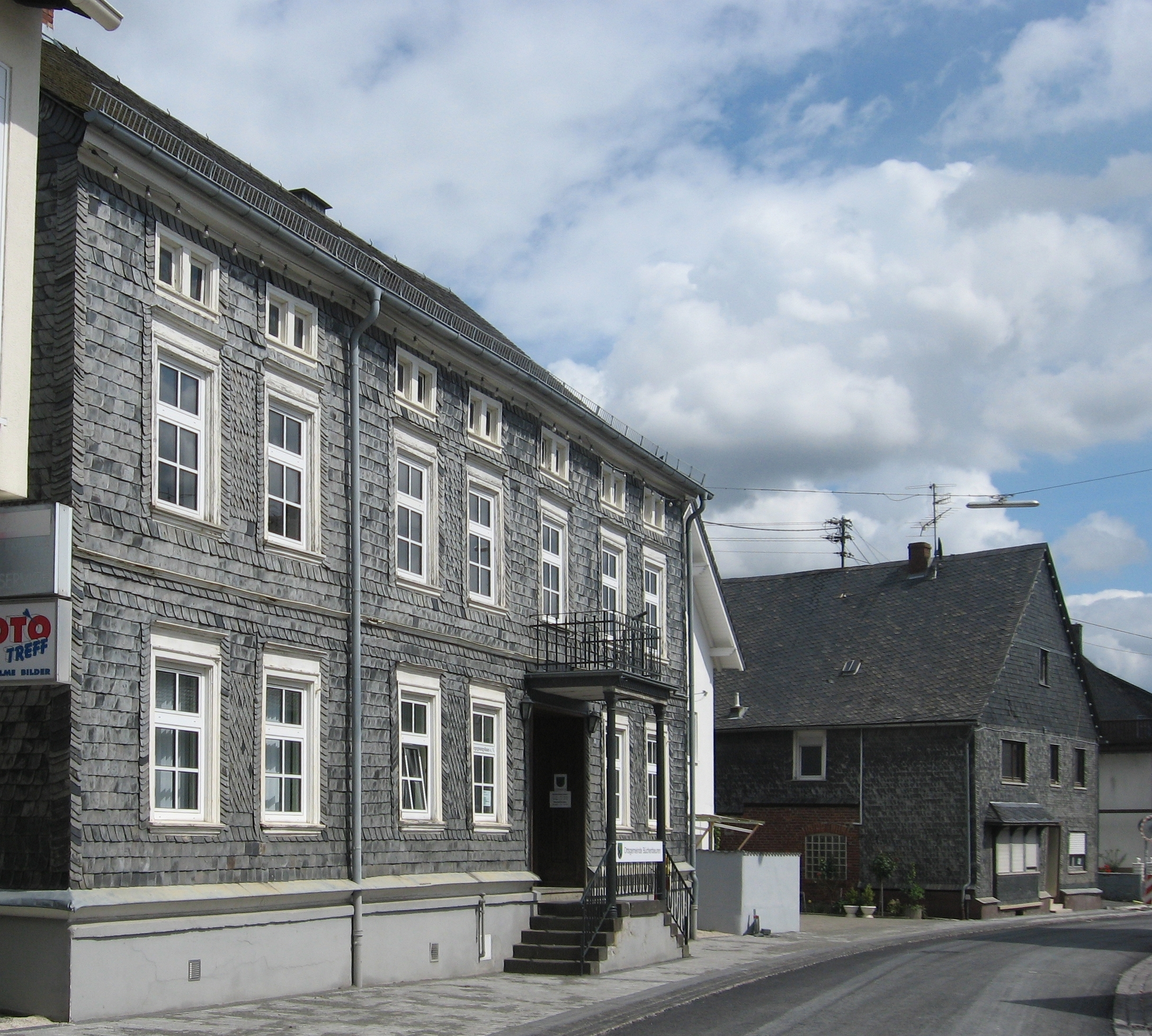 "Altes Amt" in the village Büchenbeuren in the Hunsrück landscape, Germany.